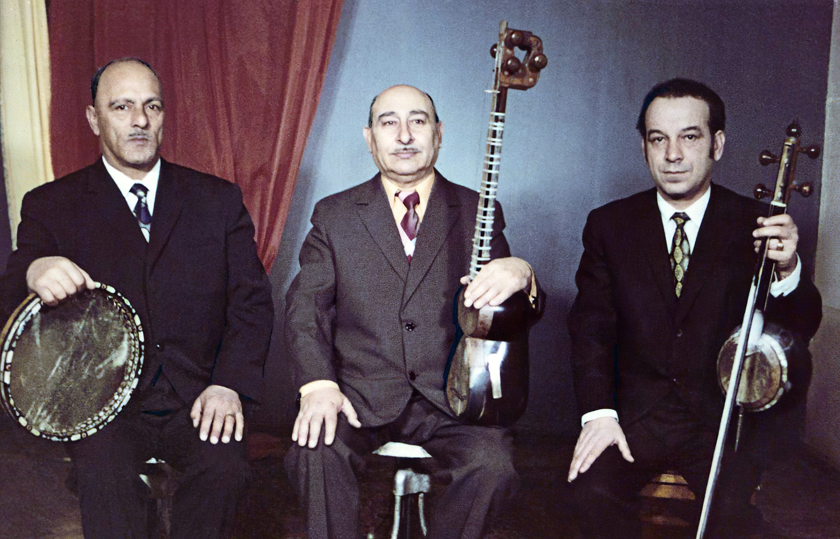 Hajibaba Huseynov, Bahram Mansurov and Talat Bakikhanov in 1977